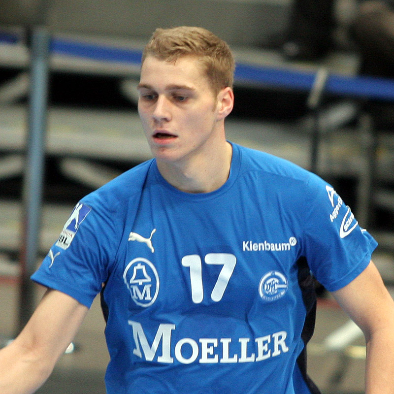 Jonathan Eisenkrätzer, Handballplayer from VfL Gummersbach (Germany). November 19th, 2008 in Lanxess Arena of Cologne